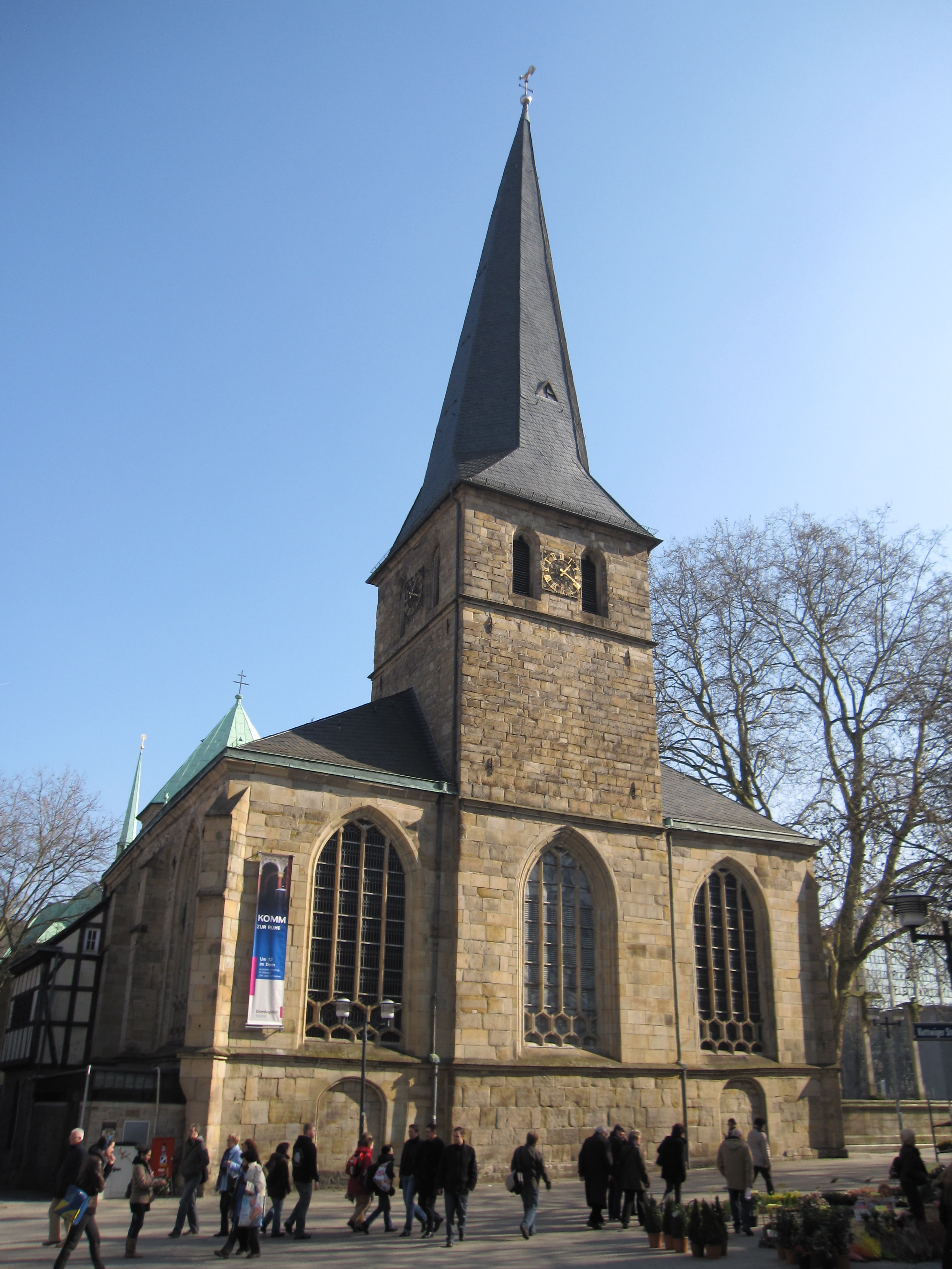 Exterior of the Church of St. John the Baptist in Essen, Germany.